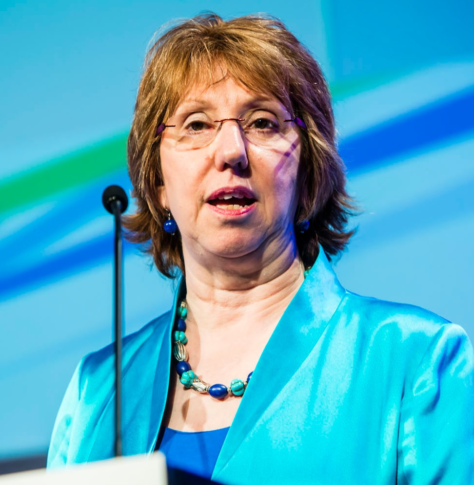 Catherine Ashton, Head of the European Defence Agency, High Representative of the Union for Foreign Affairs and Security Policy & Vice-President of the European Commission